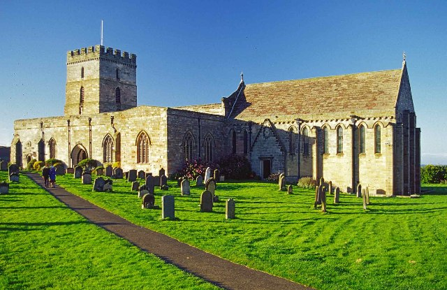 St Aidan's Church, Bamburgh. St. Aidan's Church is one of the three finest parish churches in Northumberland (others being Alnwick and Norham). Origins date from 635 AD when St. Aidan came to Lindisfarne from Iona. The present building is 13th Century; the chancel is said to be the second longest in the country (60ft), and contains magnificent reredos in Caen stone. There is an effigy of Grace Darling in the North Aisle. Her memorial is sited in the churchyard in such a position that it can be seen by passing ships.